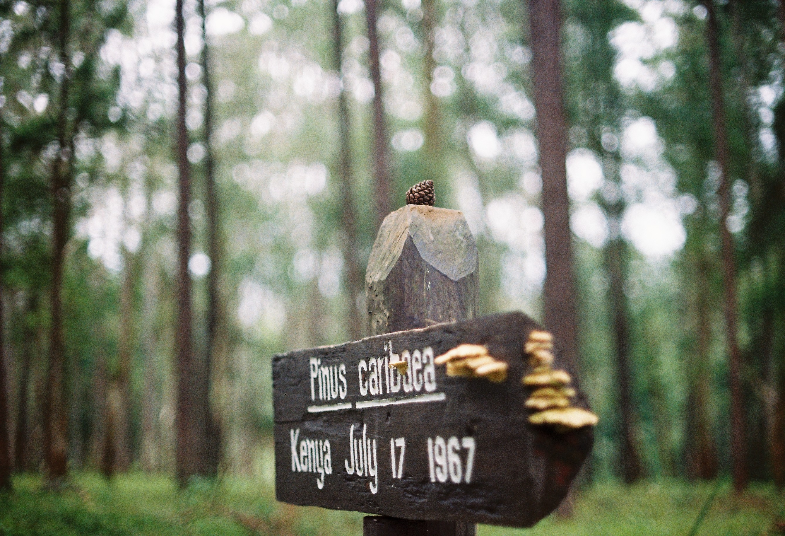 Hot, Thailand